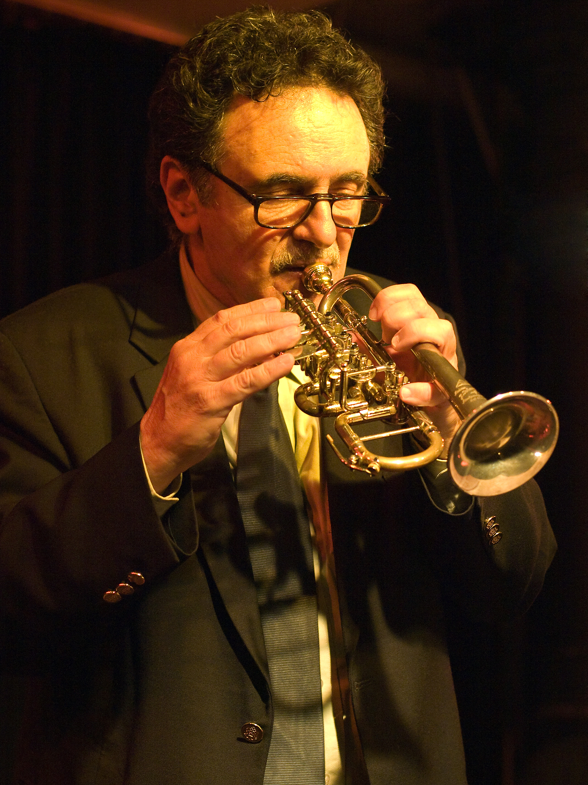 Claudio Roditi, Jazz trumpeter; here he plays a piccolo trumpet, Picture taken in Jazz Club Unterfahrt, Munich/Bavaria